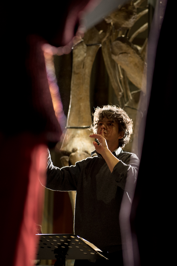 AugustinMaurs2015